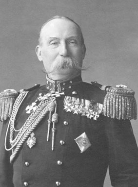 portret